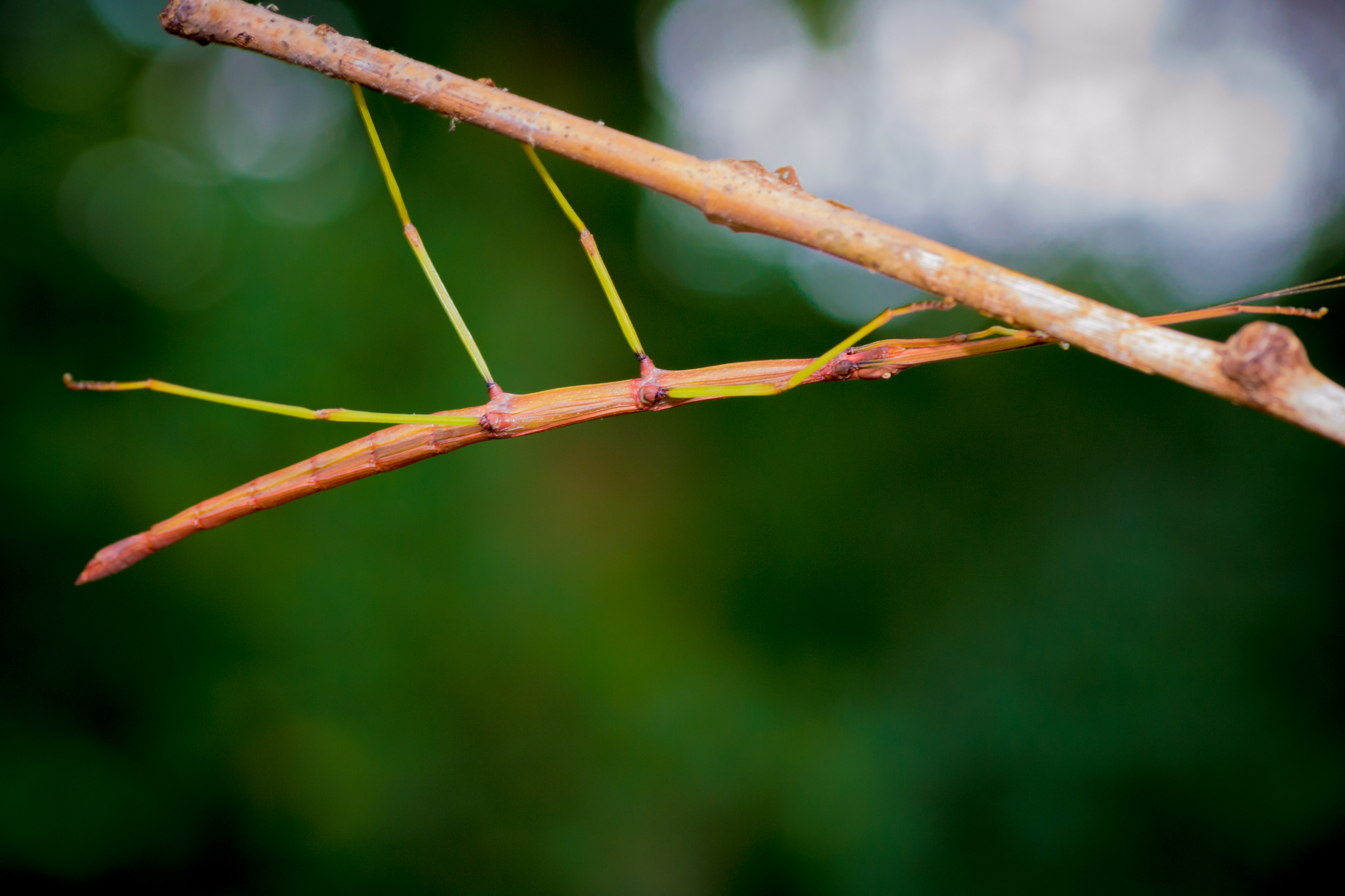 Huffman Prairie, Dayton, Ohio